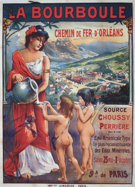 Advertising poster for PO Railway: La Bourboule